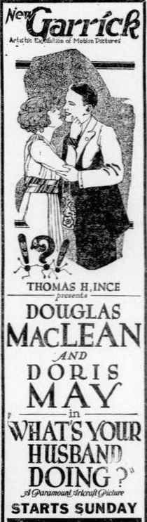 Newspaper ad for the American comedy film What's Your Husband Doing? (1920) with Douglas MacLean and Doris May, on page 9 of the March 27, 1920 Duluth Herald.